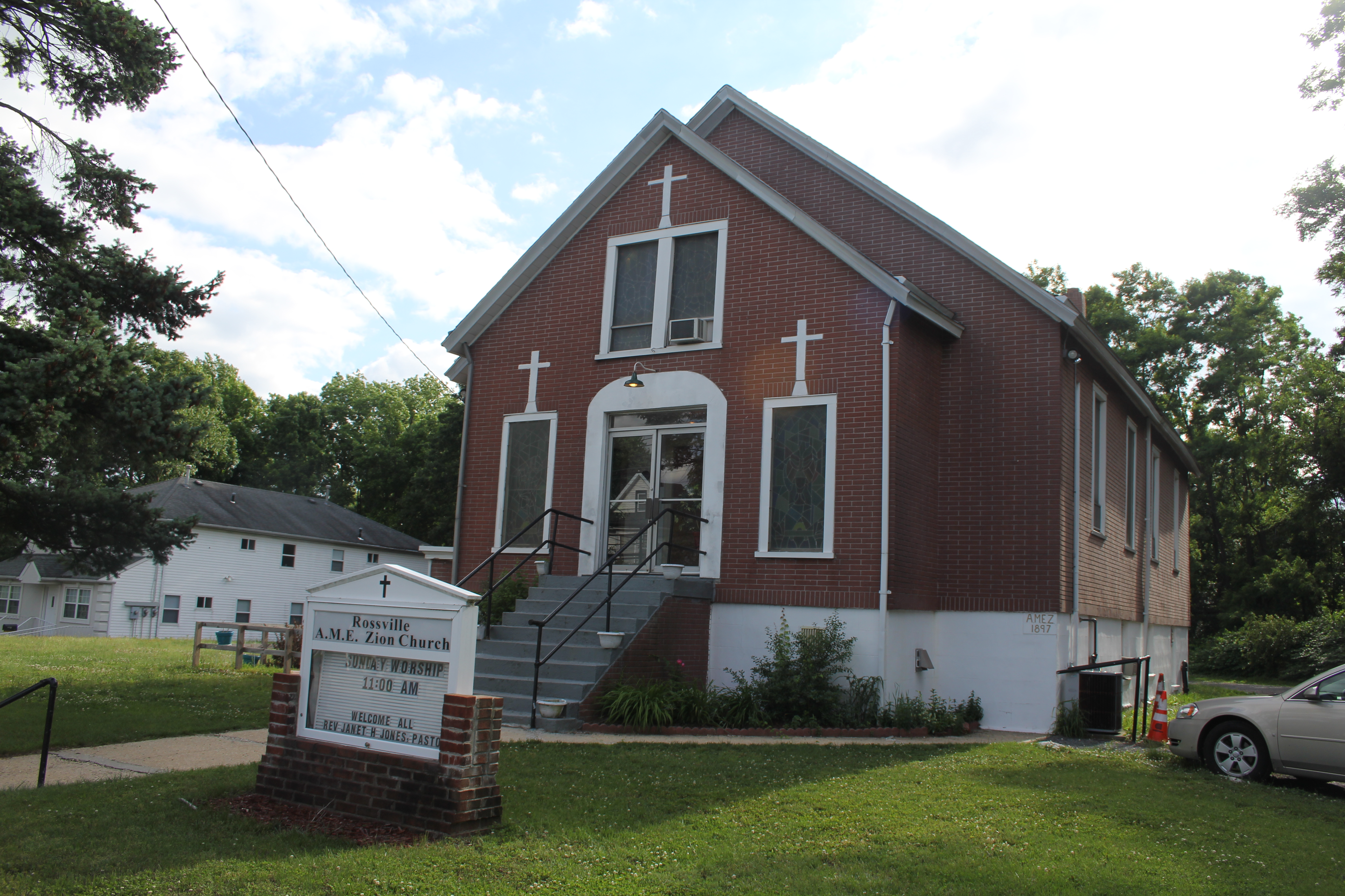 The Rossville African Methodist Episcopal Zion Church was founded in 1850 to serve Sandy Ground, a community of free African Americans who mostly made their livings by harvesting shellfish. This building was built in 1897 on Bloomingdale Road south of Woodrow Road. A designated New York City landmark.